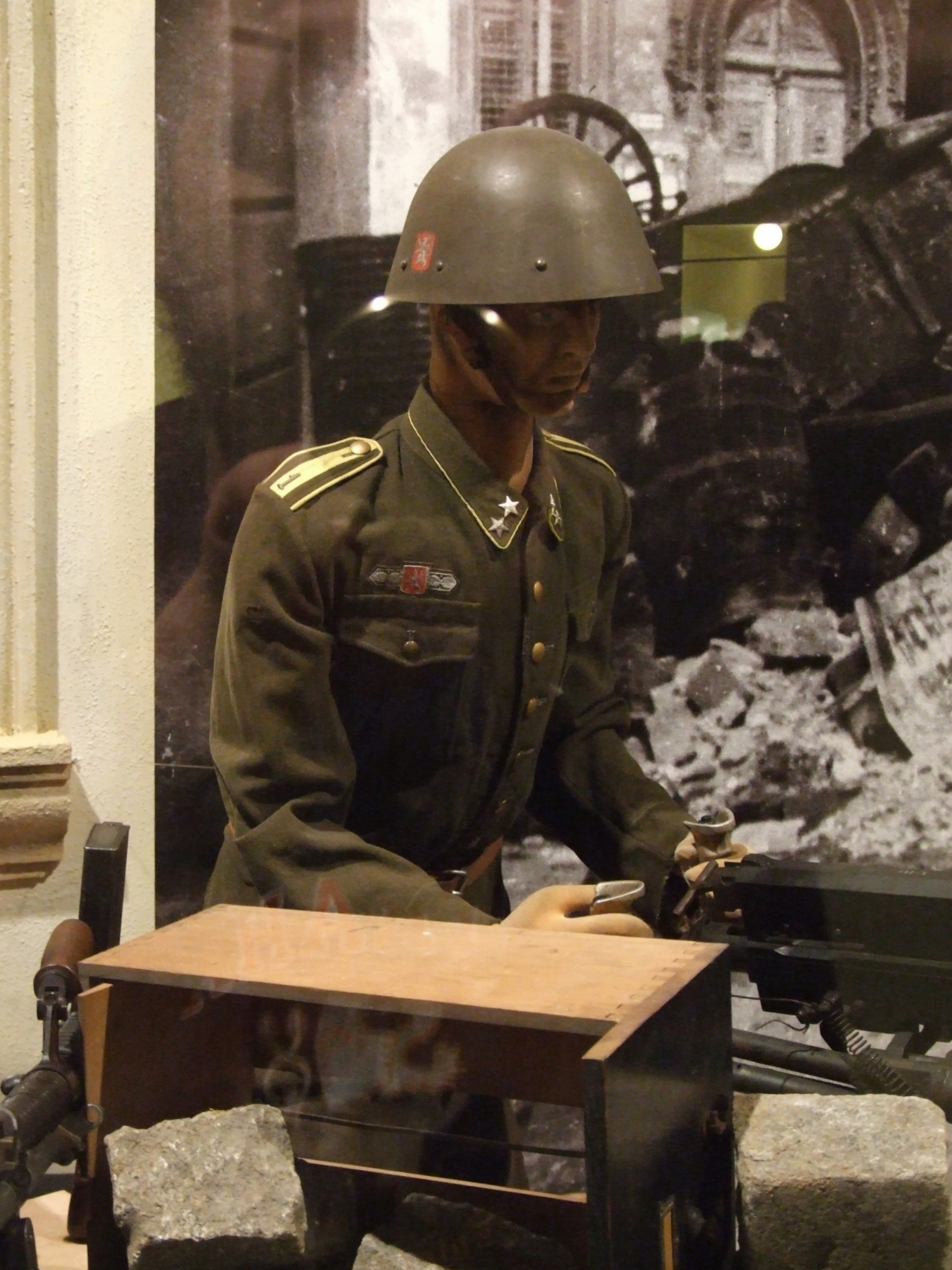 Uniform of the army of the Protectorate of Bohemia and Moravia. Soldier holding a German MG 151 machine gun (Army Museum Žižkov)